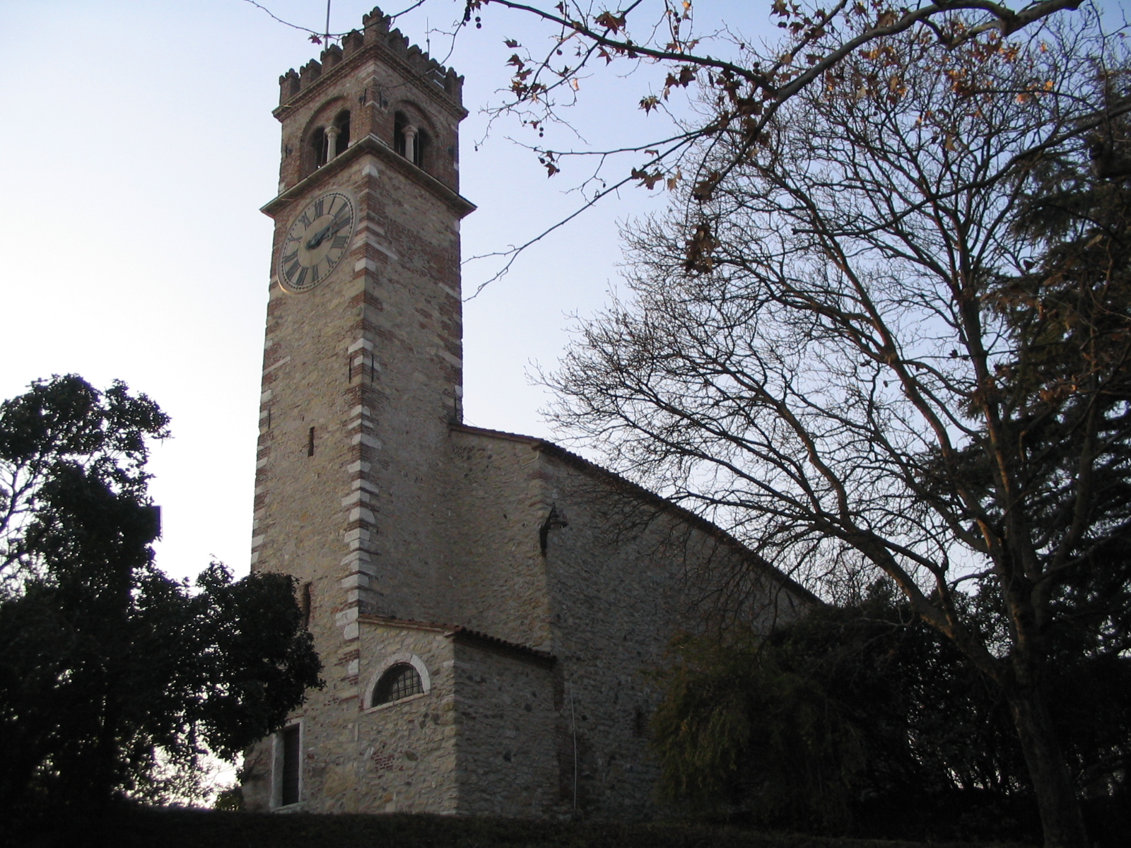 Photo By wanblee